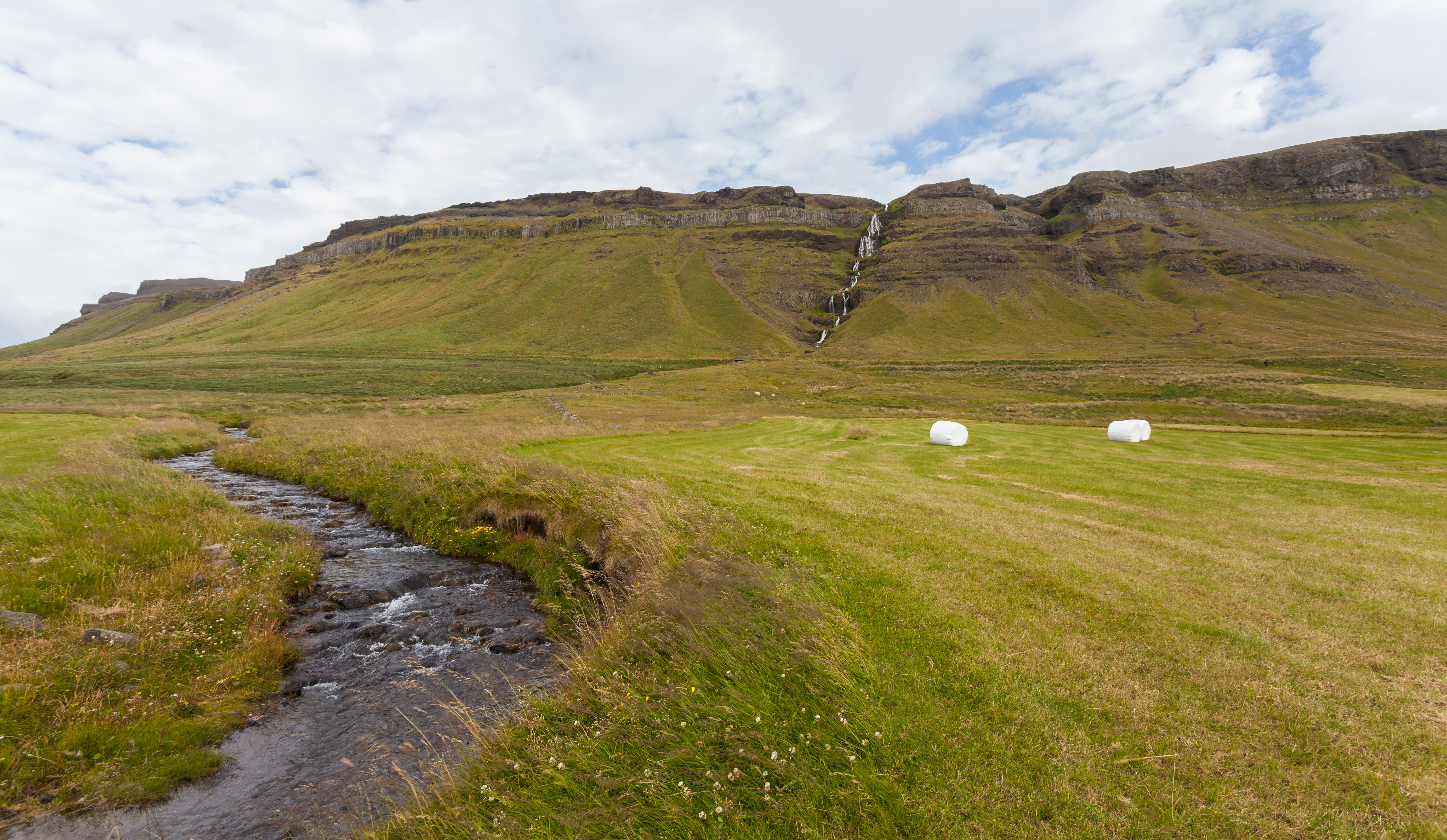 Búlandshöfði, Vesturland, Iceland